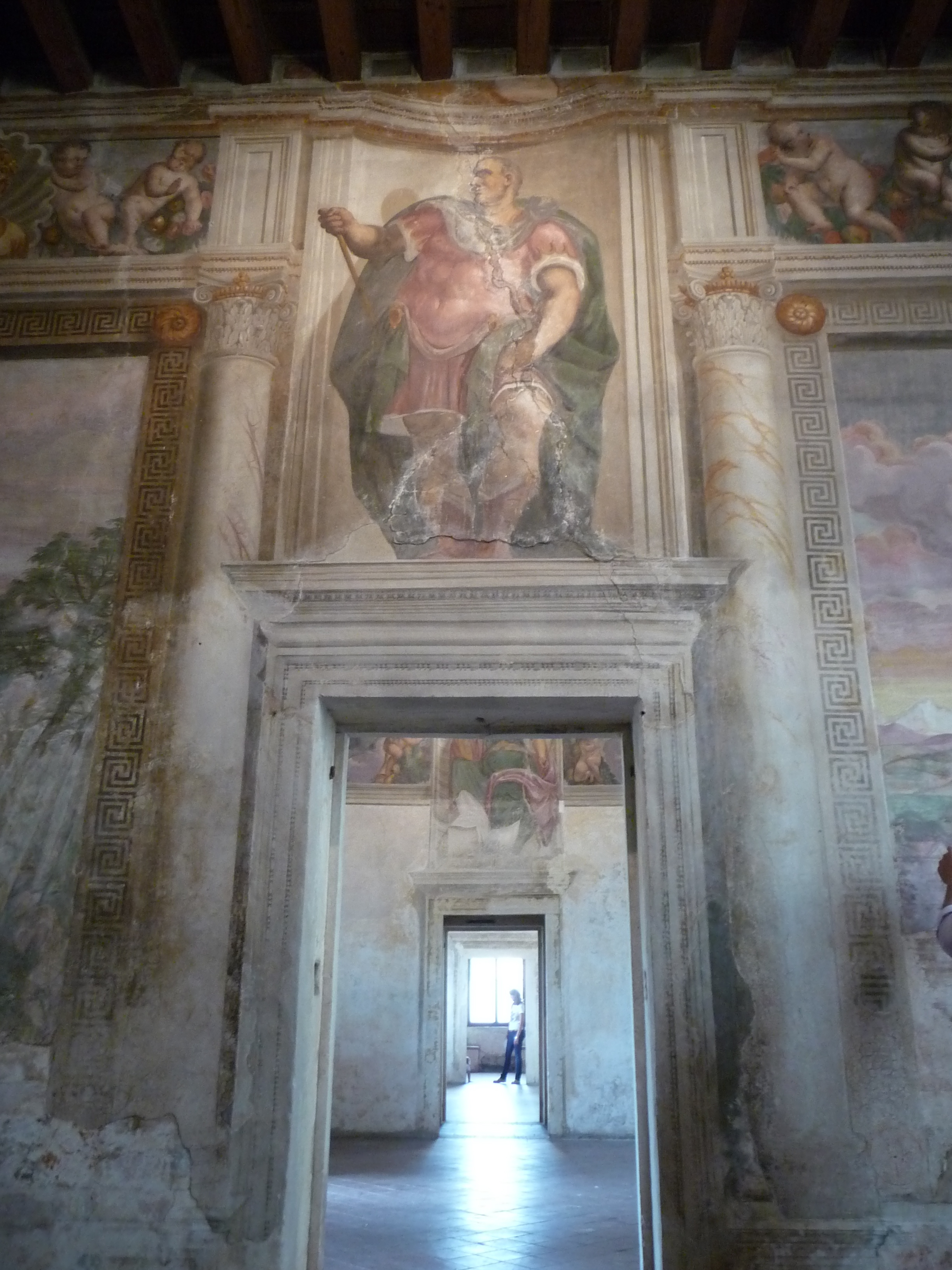 Villa Sesso Schiavo in Sandrigo, province of Vicenza.